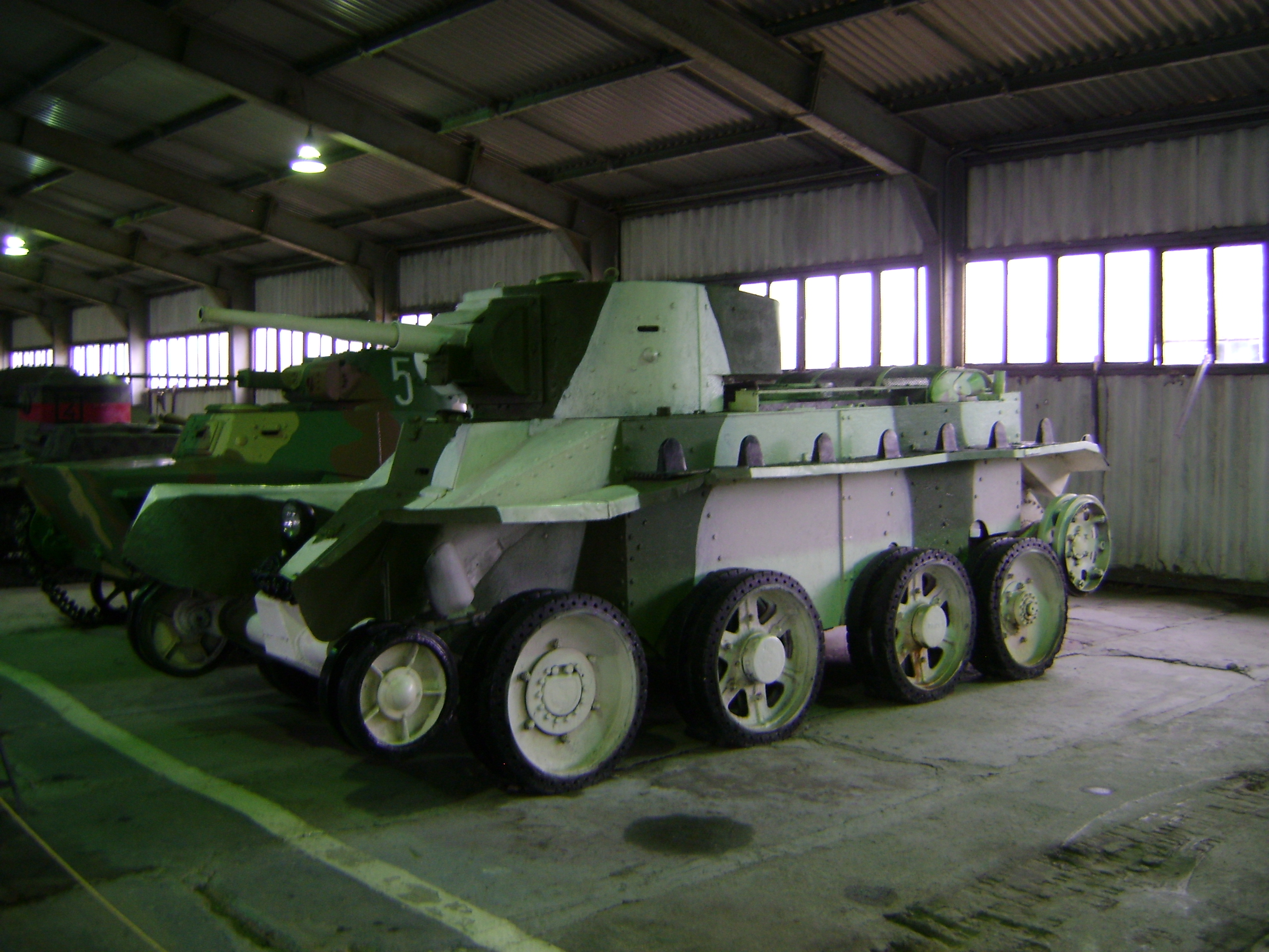 Track or wheel tank